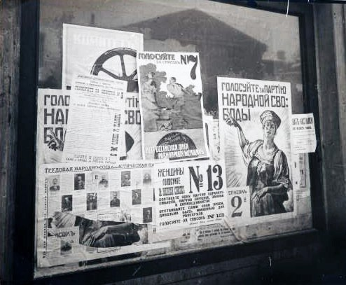 Russian Constituent Assembly election posters. Petrograd, 1917.